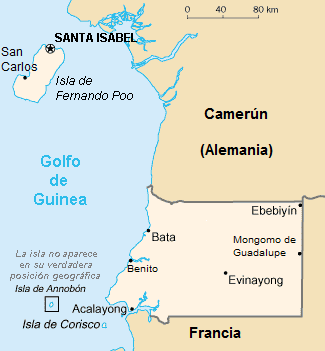 Spanish Equatorial Guinea, 1900 (Treaty of Paris). Using file:Eq Guinea ES.PNG